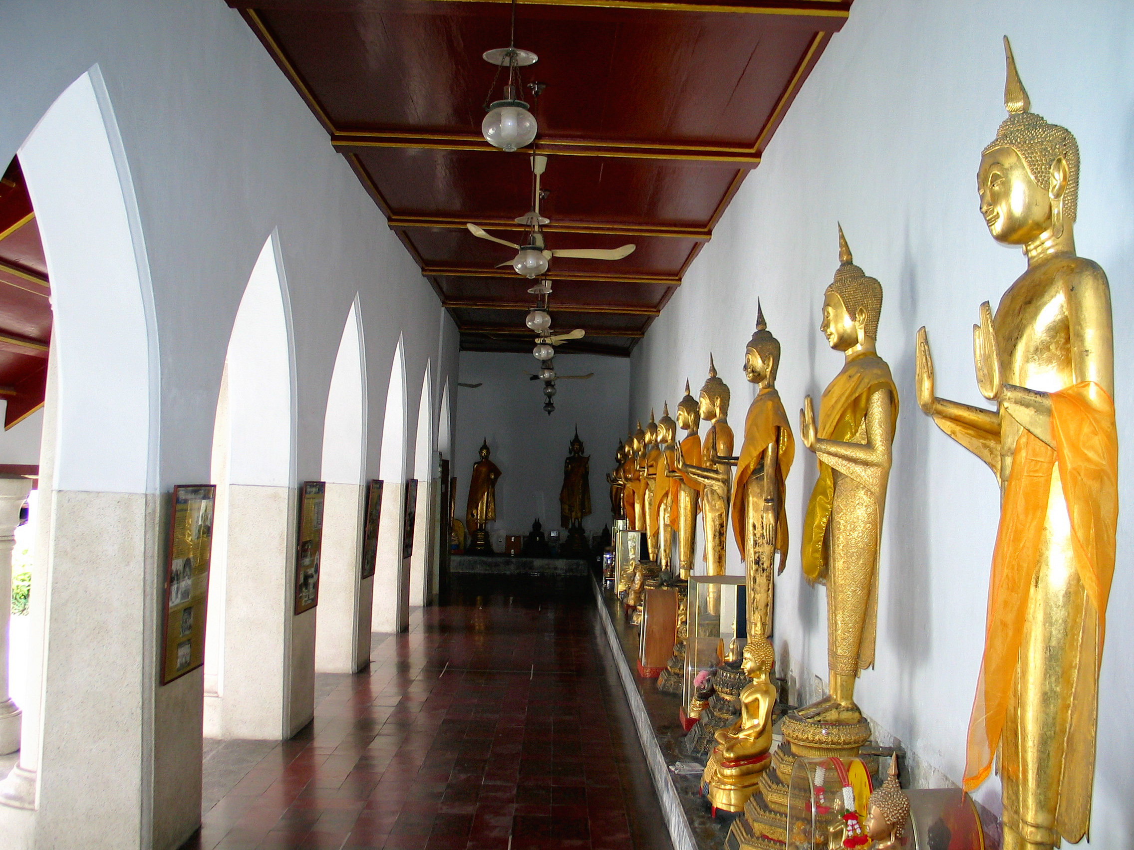 Phra Rabiang (gallery) of Wat Somanat Wihan, Pom Prap Sattru Phai district, Bangkok, Thailand